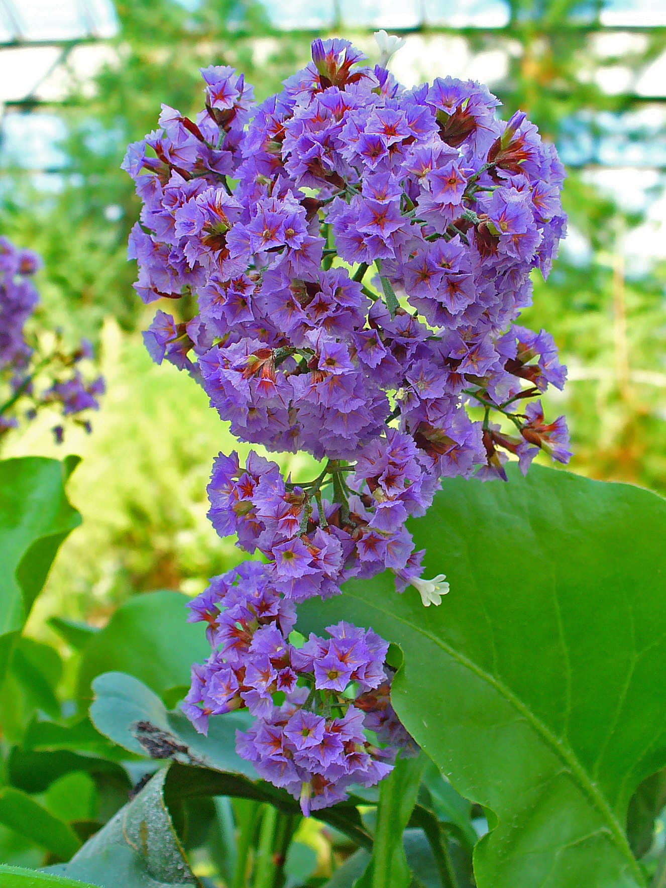 Limonium arborescens, Plumbaginaceae, Tree Limonium, Siempreviva, inflorescence; Botanic Garden Universiy Tübingen, Germany.